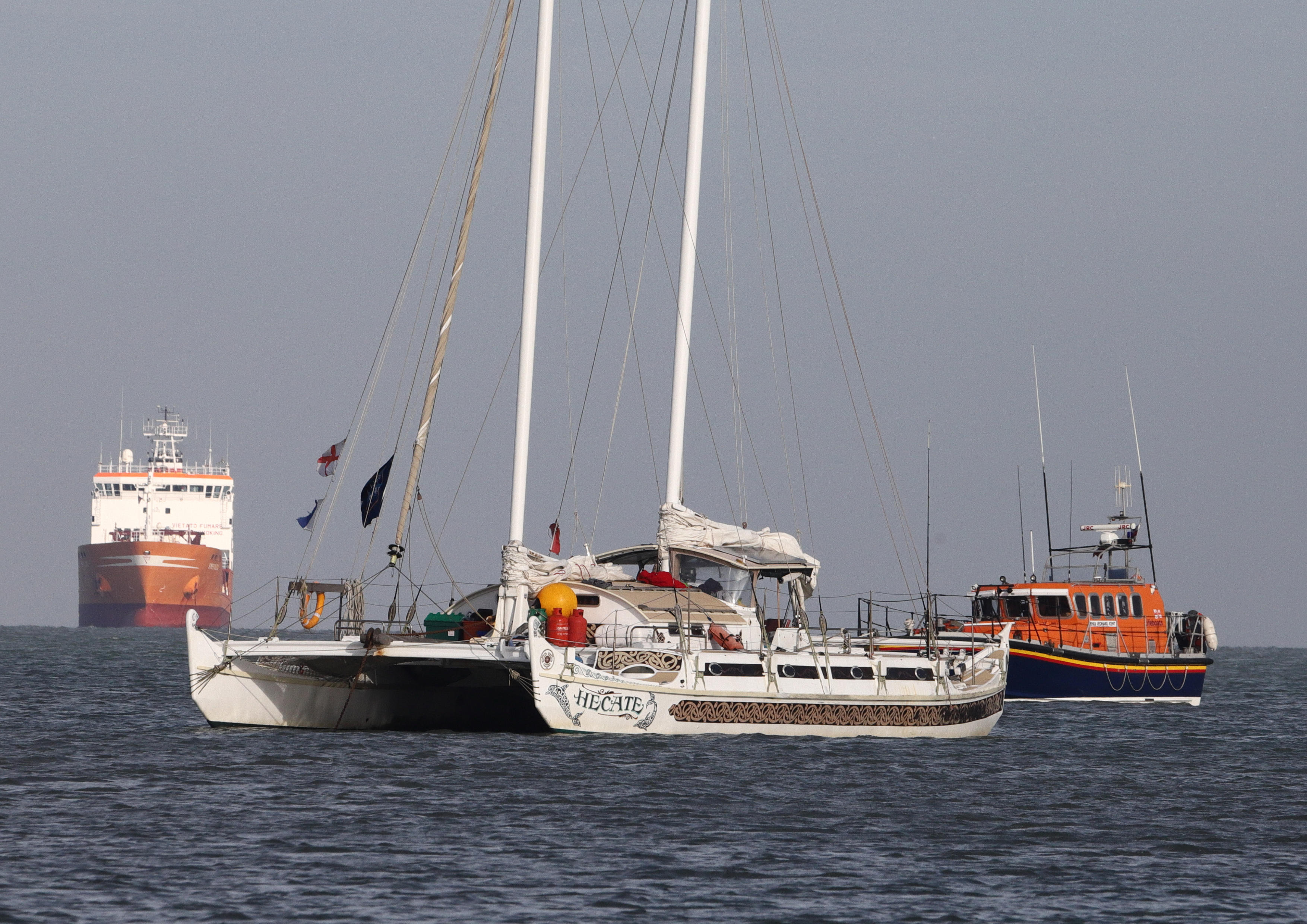 Great British Swim - Ross Edgley's support boat "Hecate" with Margate Lifeboat